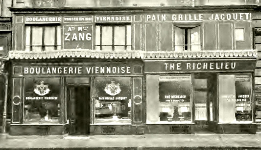 This shows the original Boulangerie Viennoise (Viennese bakery) at 92, rue de Richelieu in Paris in or around 1909. The bakery was founded by August Zang sometime before 1840 (despite the "founded in 1840" sign) and introduced the croissant (the Austrian kipfel) to France